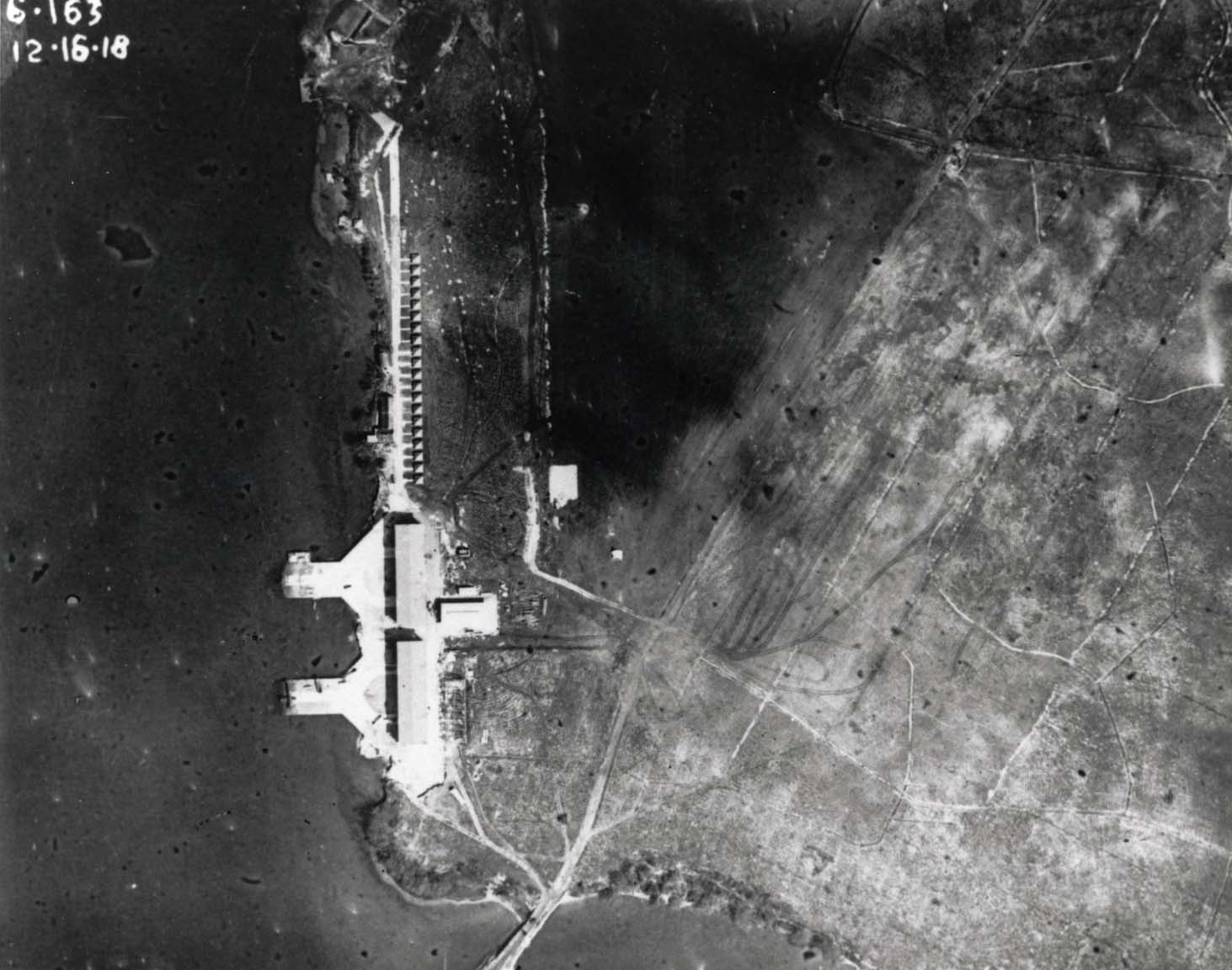 Earliest known photo of Luke Field, later Ford Island, on December 16, 1918 believed to have been taken by a US Army Air Service aviator in the course of his duties.